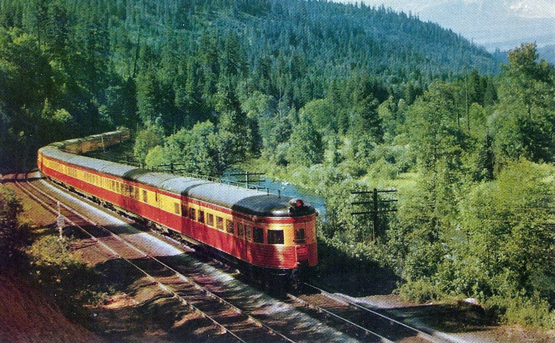 Postcard photo of the Southern Pacific's Shasta Daylight. The card was produced to promote this new train which replaced the Shasta Limited.